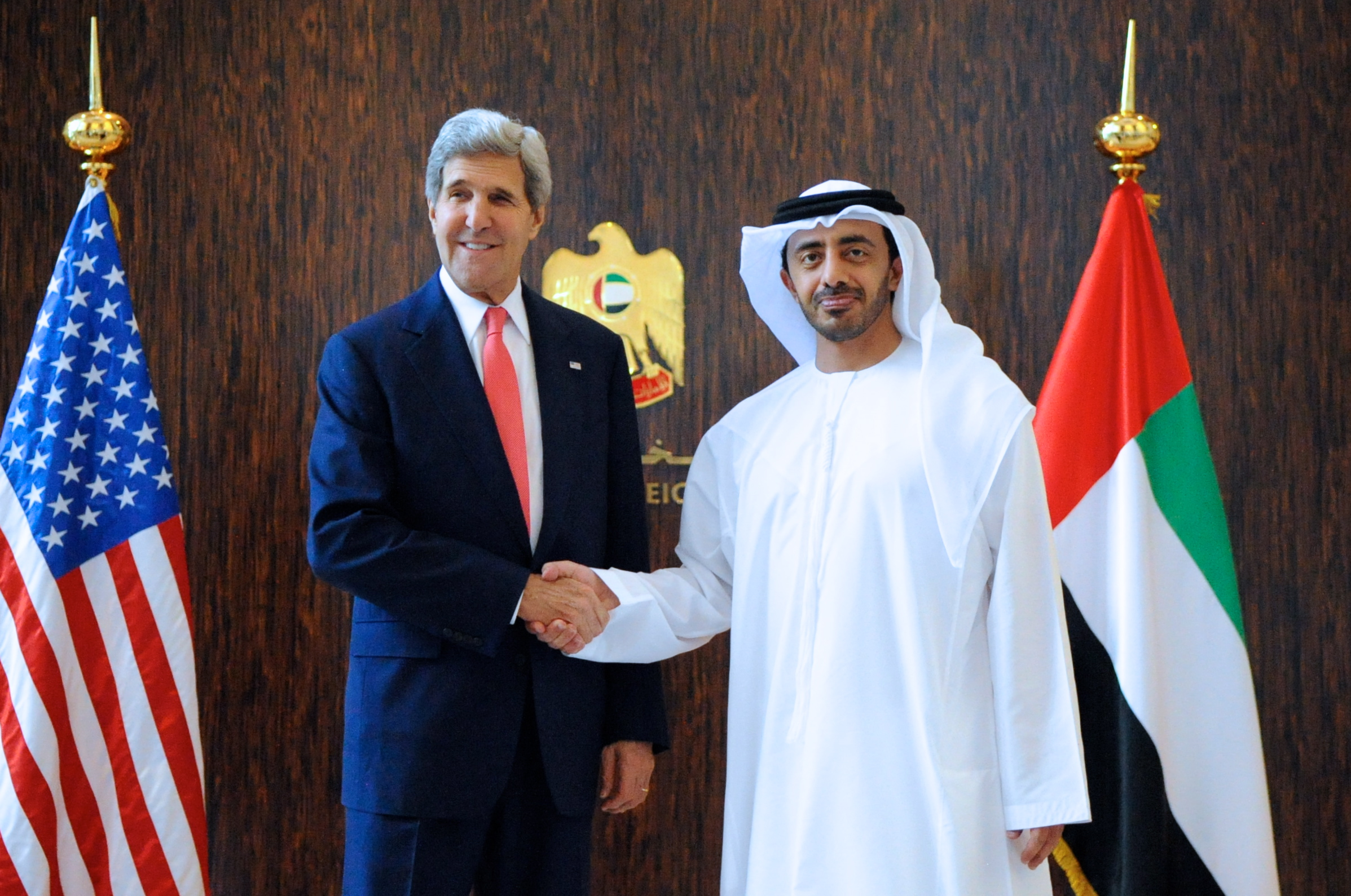 UAE Minister of Foreign Affairs Abdullah bin Zayed Al Nayhan shakes hands with U.S. Secretary of State John Kerry in the Ministry of Foreign Affairs before a meeting in Abu Dhabi, United Arab Emirates, on November 11, 2013. [State Department photo/ Public Domain]